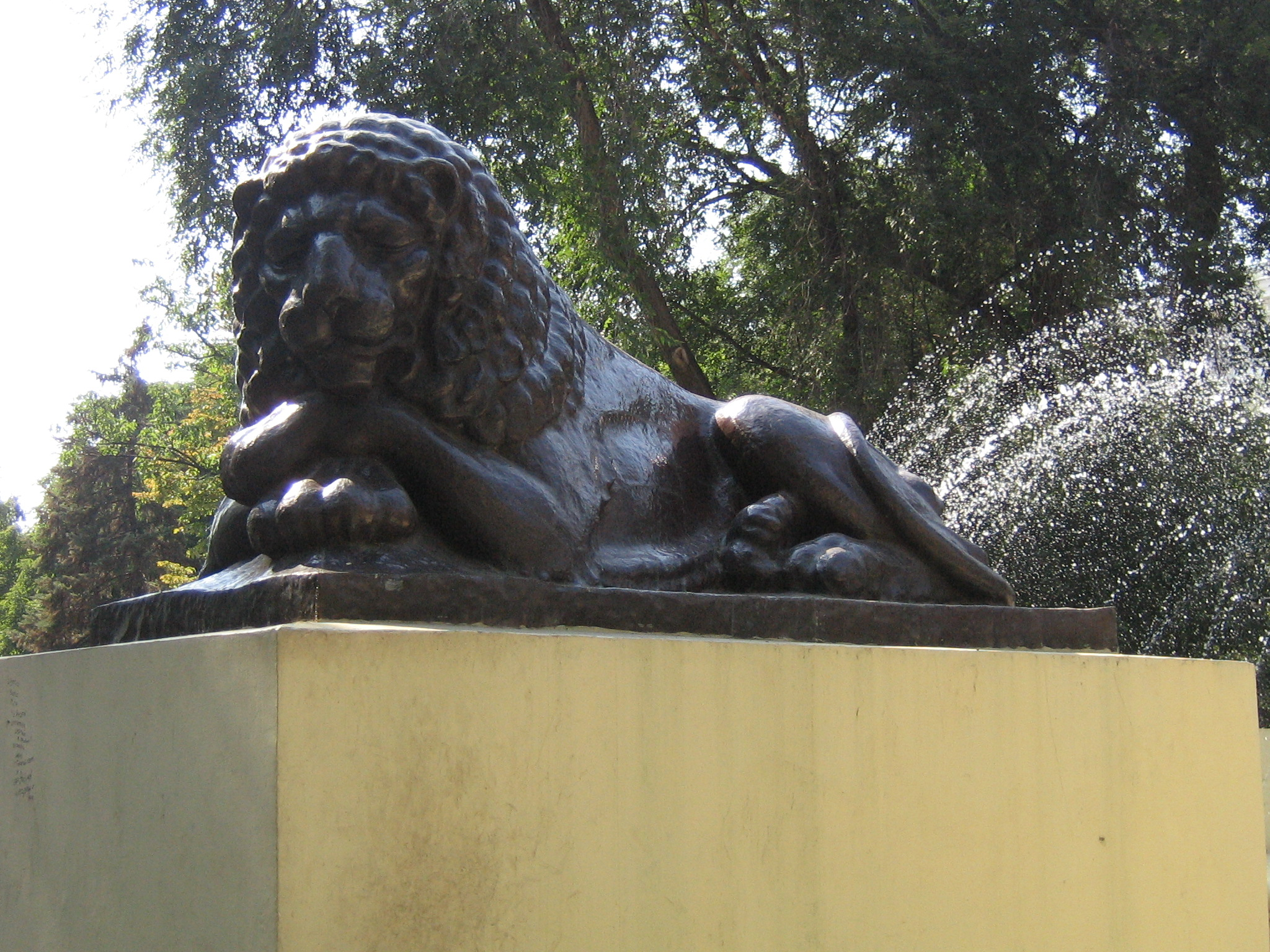 Lion close up (Rostov-on-Don)